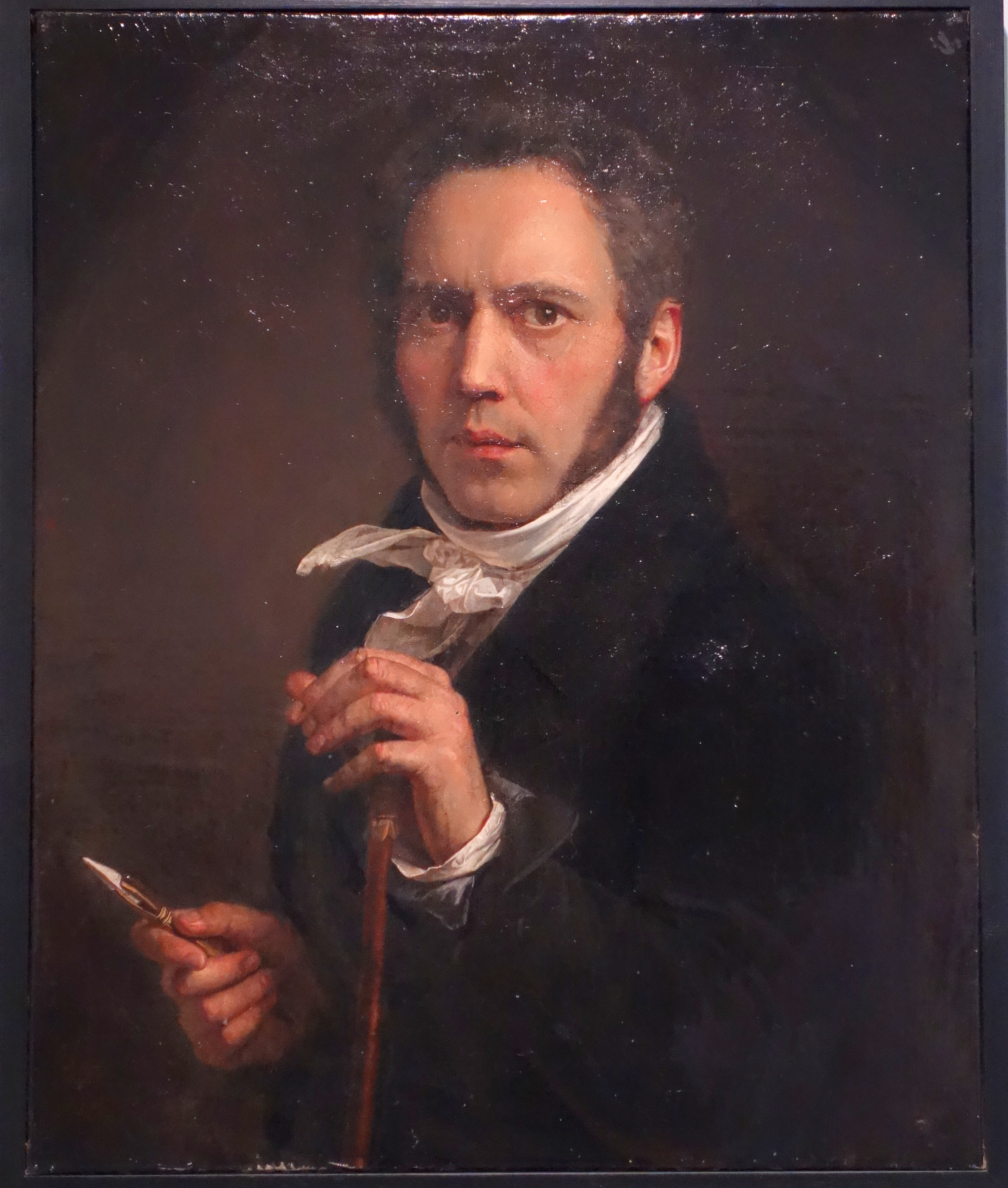 Exhibit in the Museum M - Leuven, Belgium. This artwork is in the public domain because the artist died more than 70 years ago.